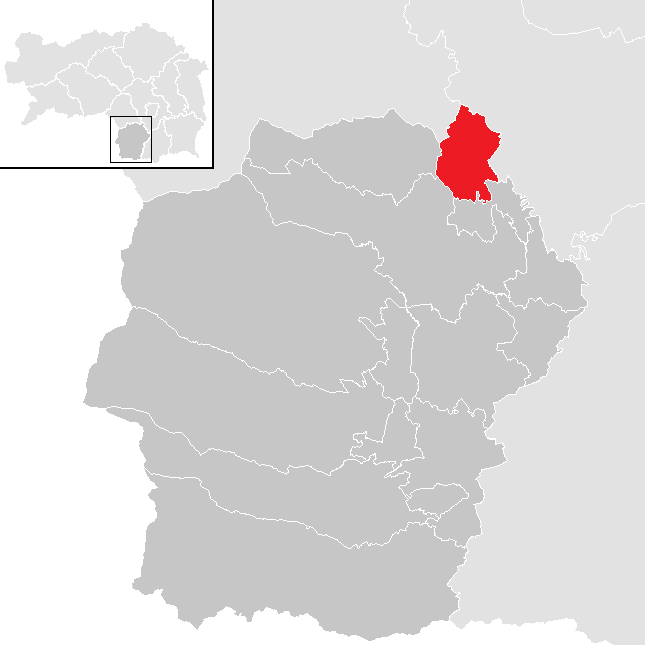 District Deutschlandsberg, Styria, Austria